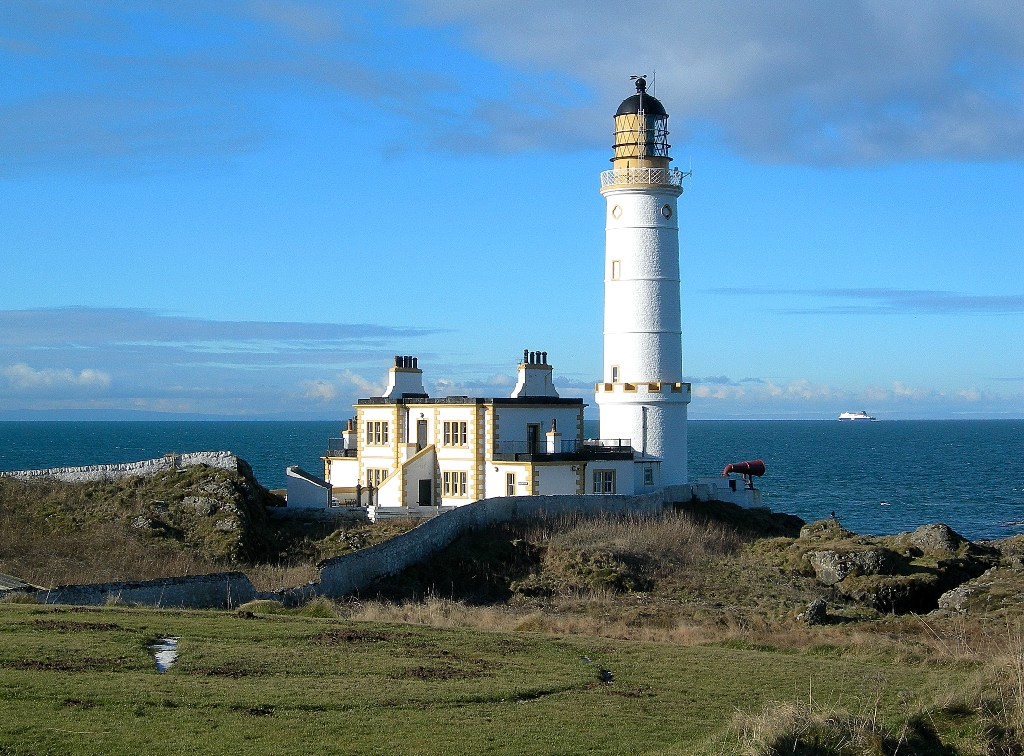 Corsewell Lighthouse and Hotel